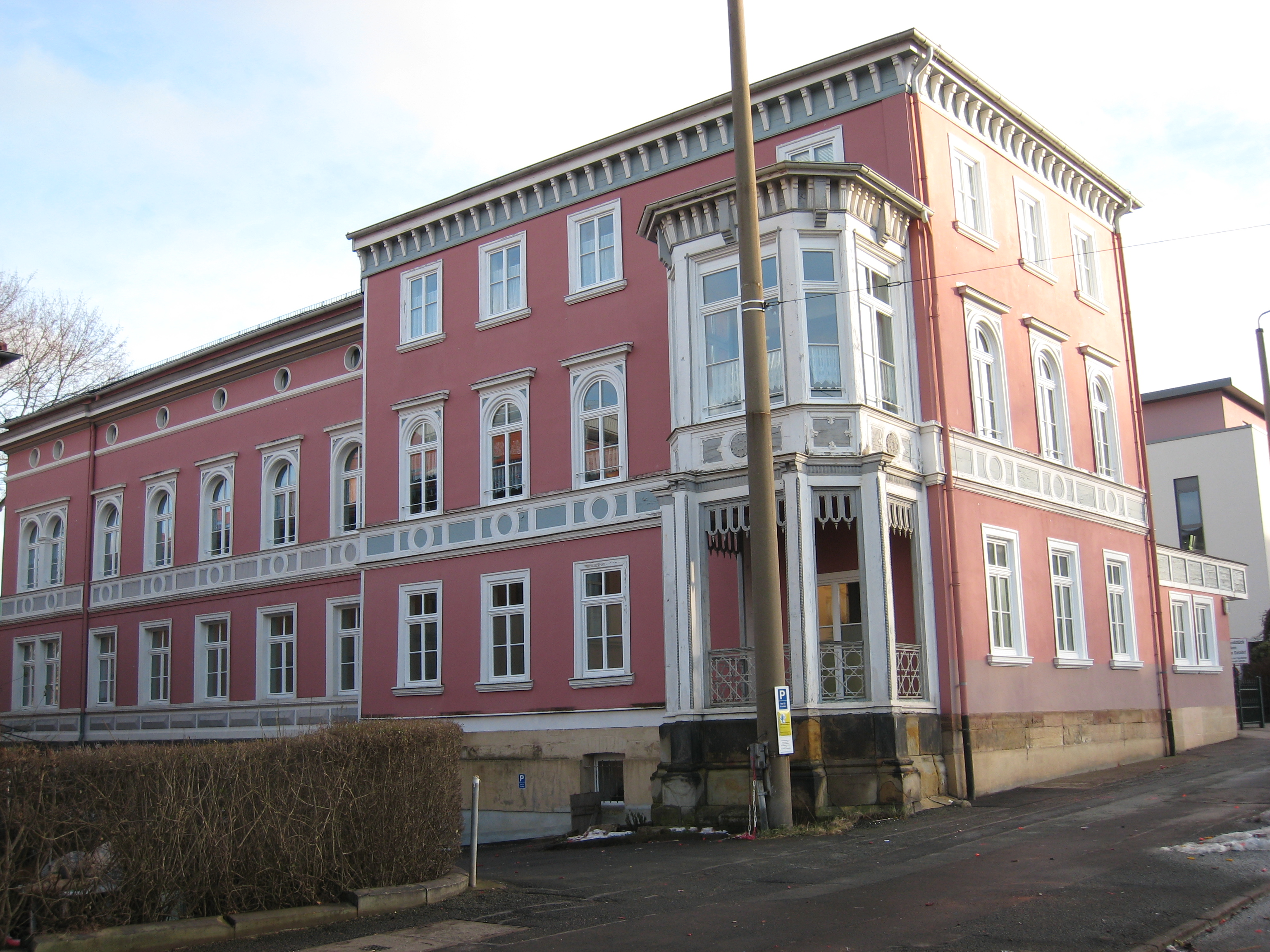 Haus Friedrichstraße 9 Gotha